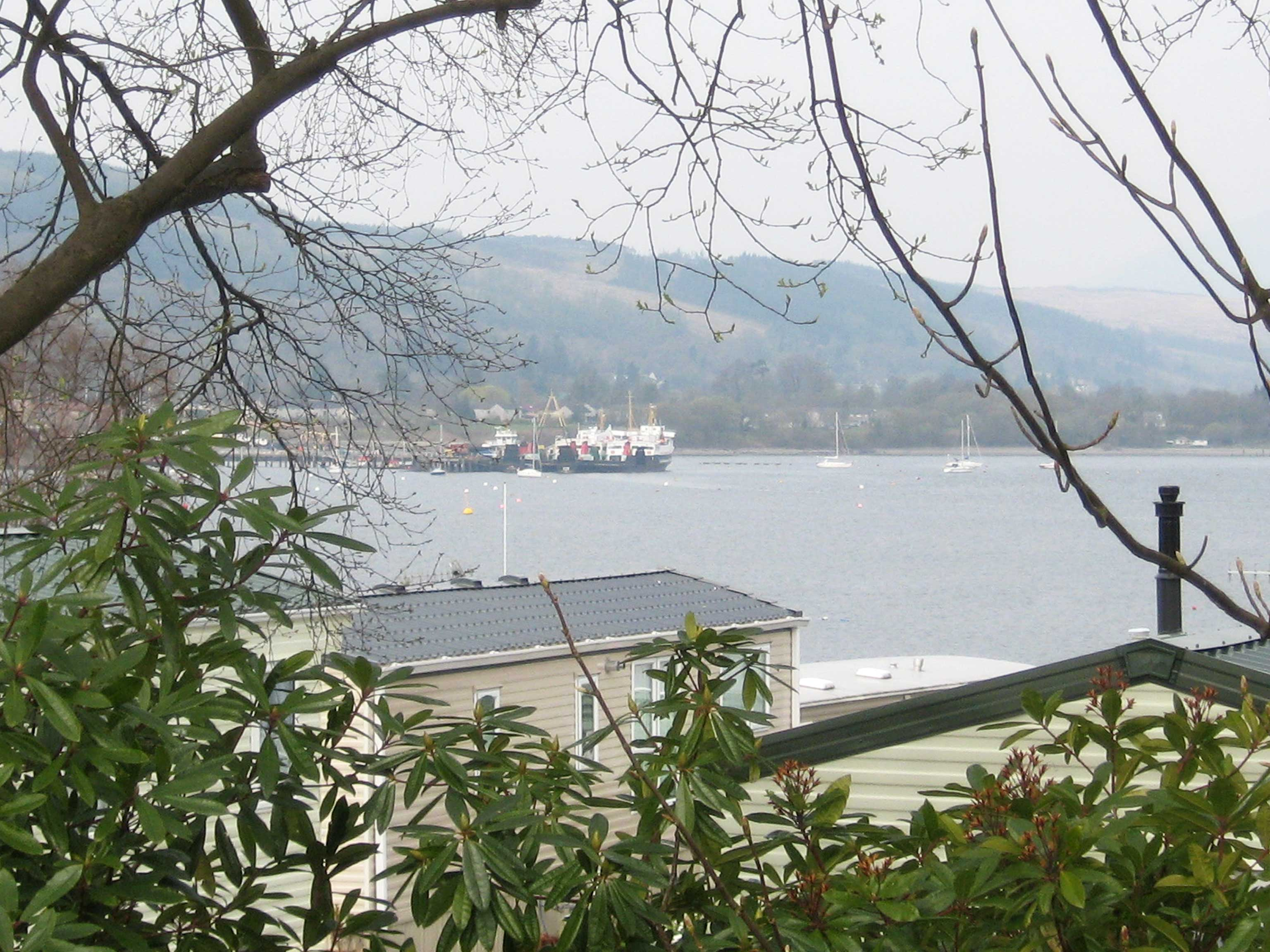 Rosneath caravan park, looking over the Gare Loch towards the former naval base, with MV Juno laid up at the pier, and MV Saturn alongside.